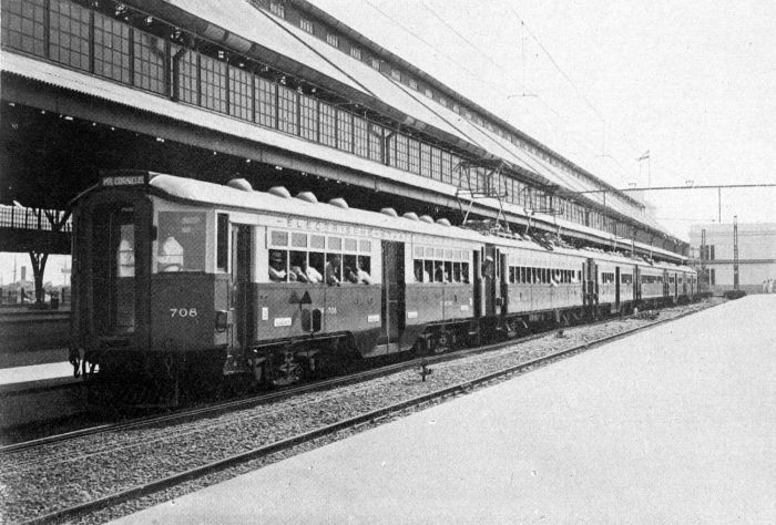 The first electric train from Weltevreden to Tandjong Priok, Batavia